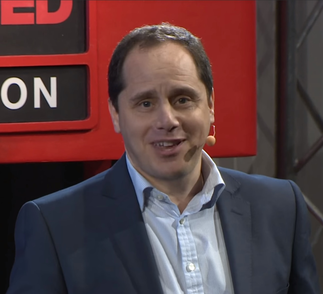 James Freedman is an entertainer -- and a professional pickpocket. He uses his expertise to consult on films and TV shows, but his real passion is helping people stay safe and avoid falling victim to real theft. [Note: We want you to see these talks exactly as they happened! The archive footage might be a little rougher than the usual talk.]